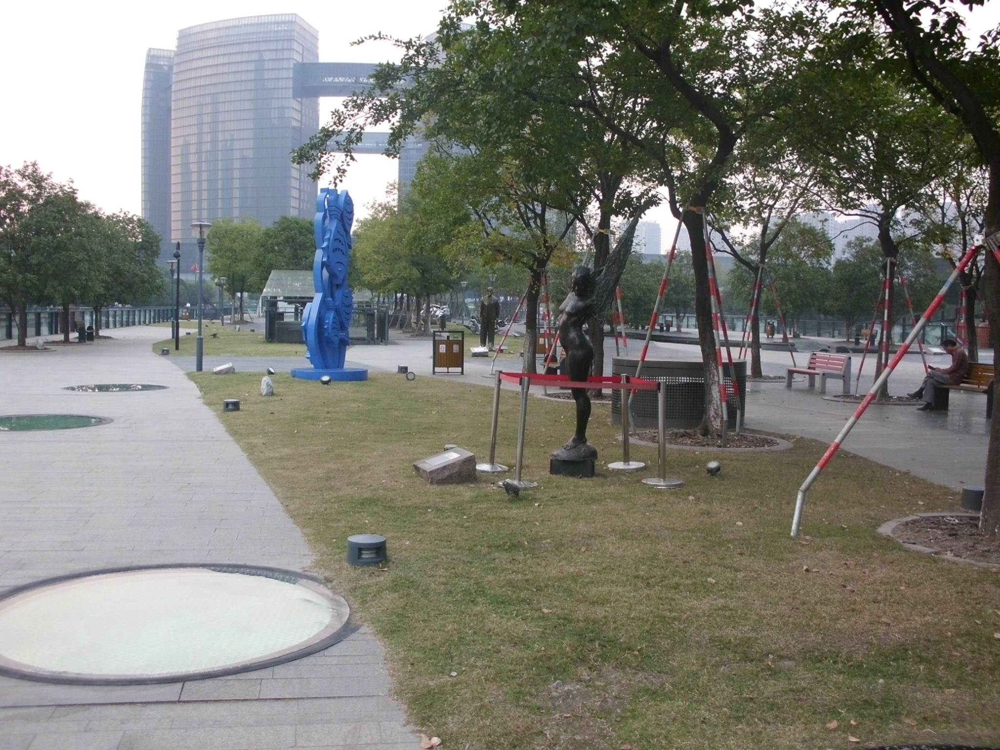 Hangzhou civil square